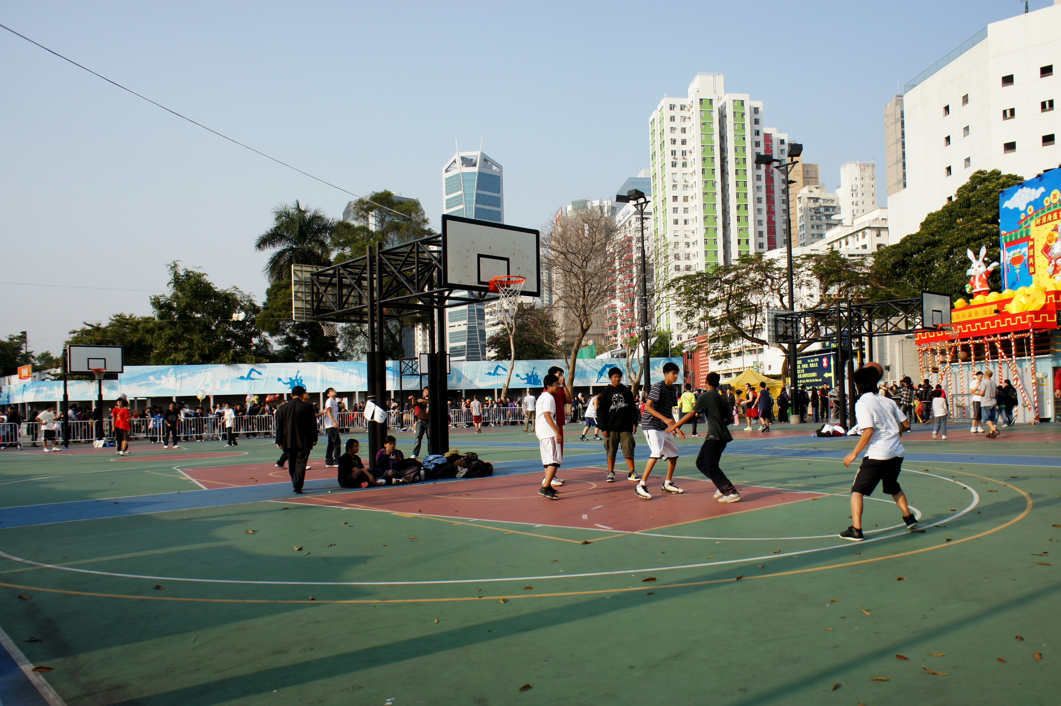 Basketball courts in the Victoria Park, Hong Kong.